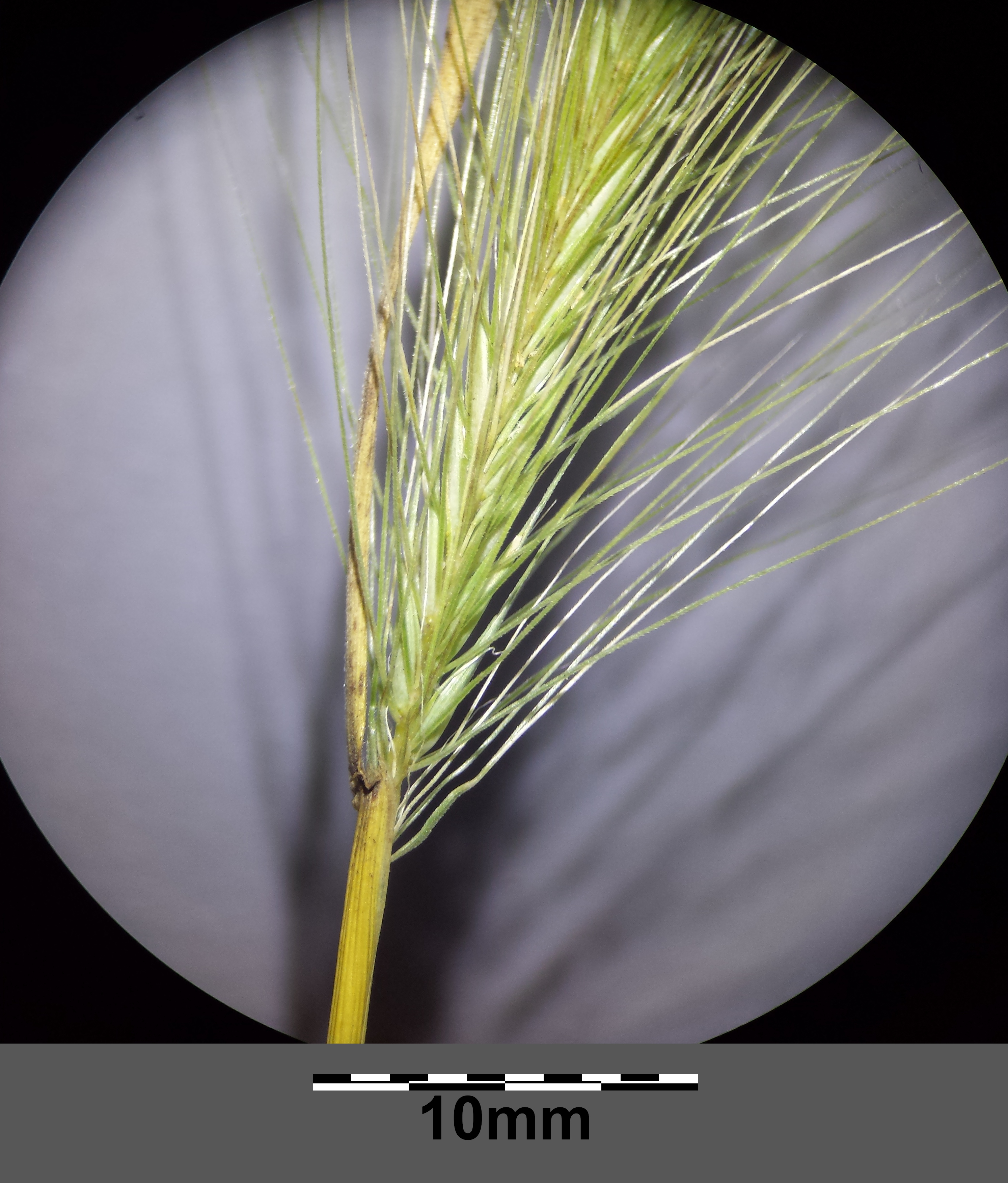 Spike (detail) Taxonym: Hordeum jubatum ss Fischer et al. EfÖLS 2008 ISBN 978-3-85474-187-9 Location: next to Marchfeldkanal near Gerasdorf, district Korneuburg, Lower Austria - ca. 160 m a.s.l. Habitat: recently created windbreak